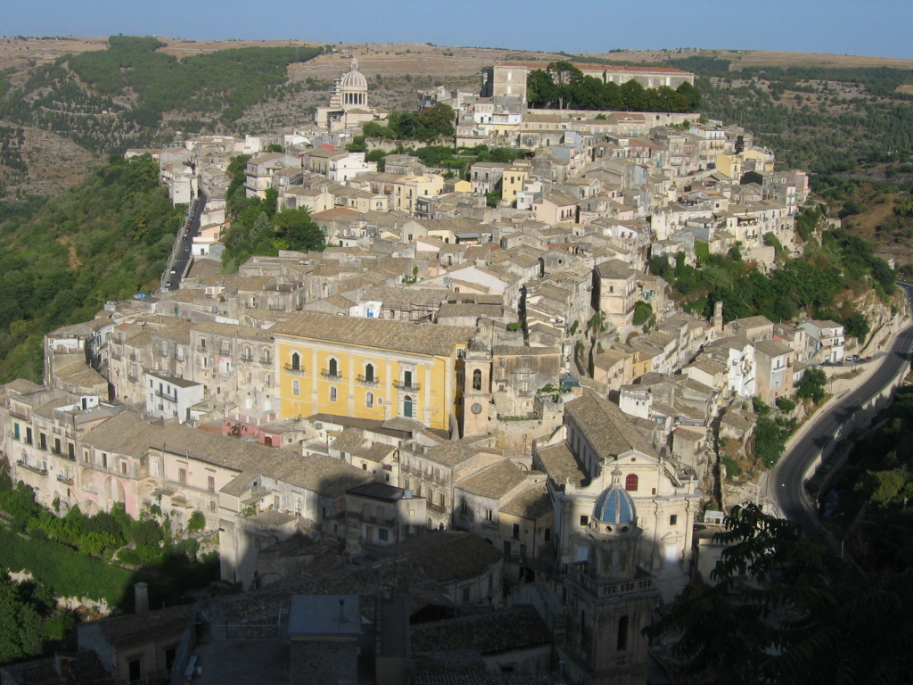 Ragusa Ibla, Ragusa, Italy, Sicilia. Author : Urban Body : Canon Powershot A80 Date : August, 2005